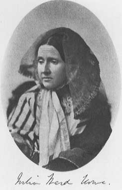 Julia Ward Howe